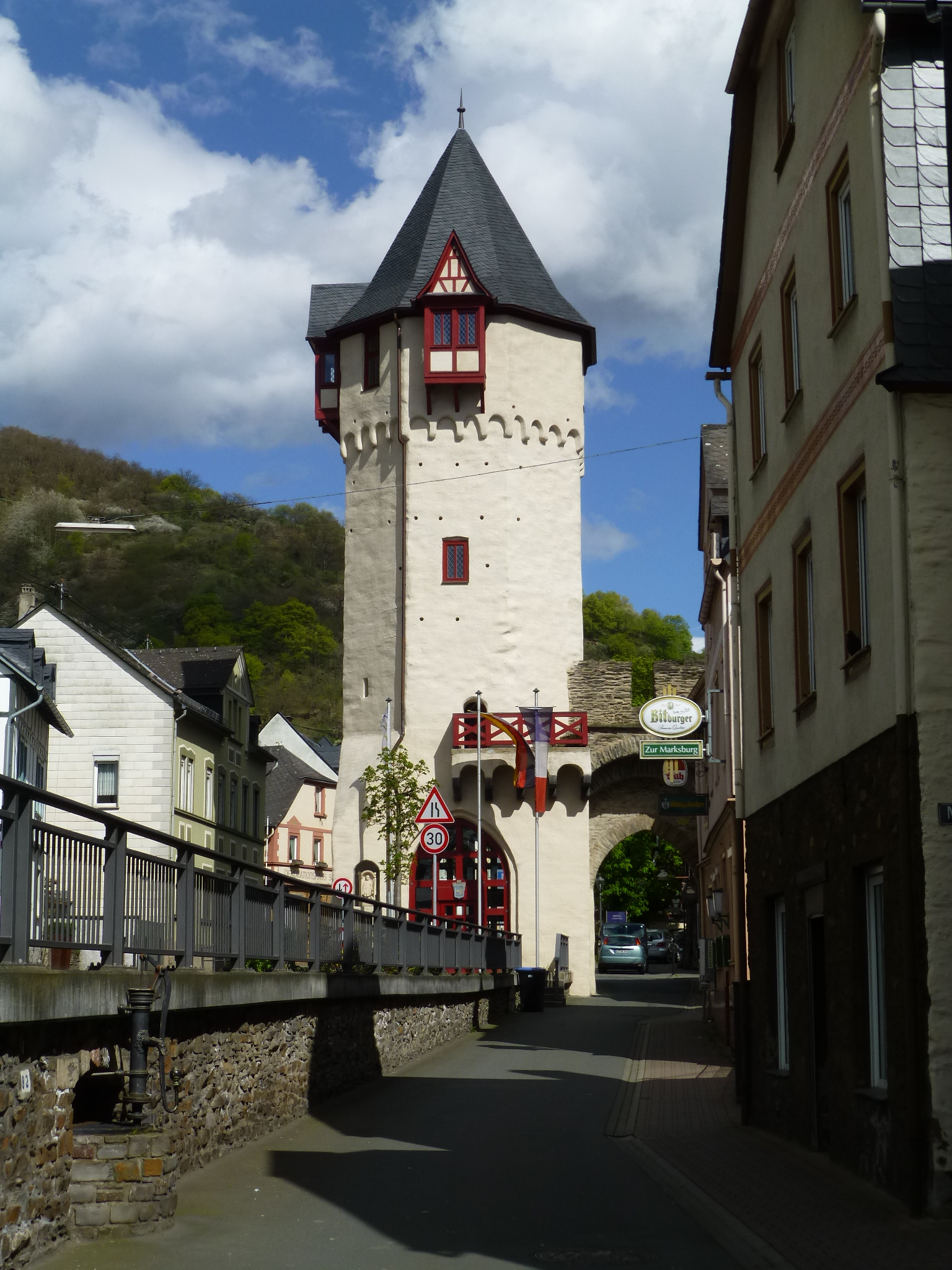 East Tower and gate of Braubach, Rhineland-Palatinate, historically in Nassau.